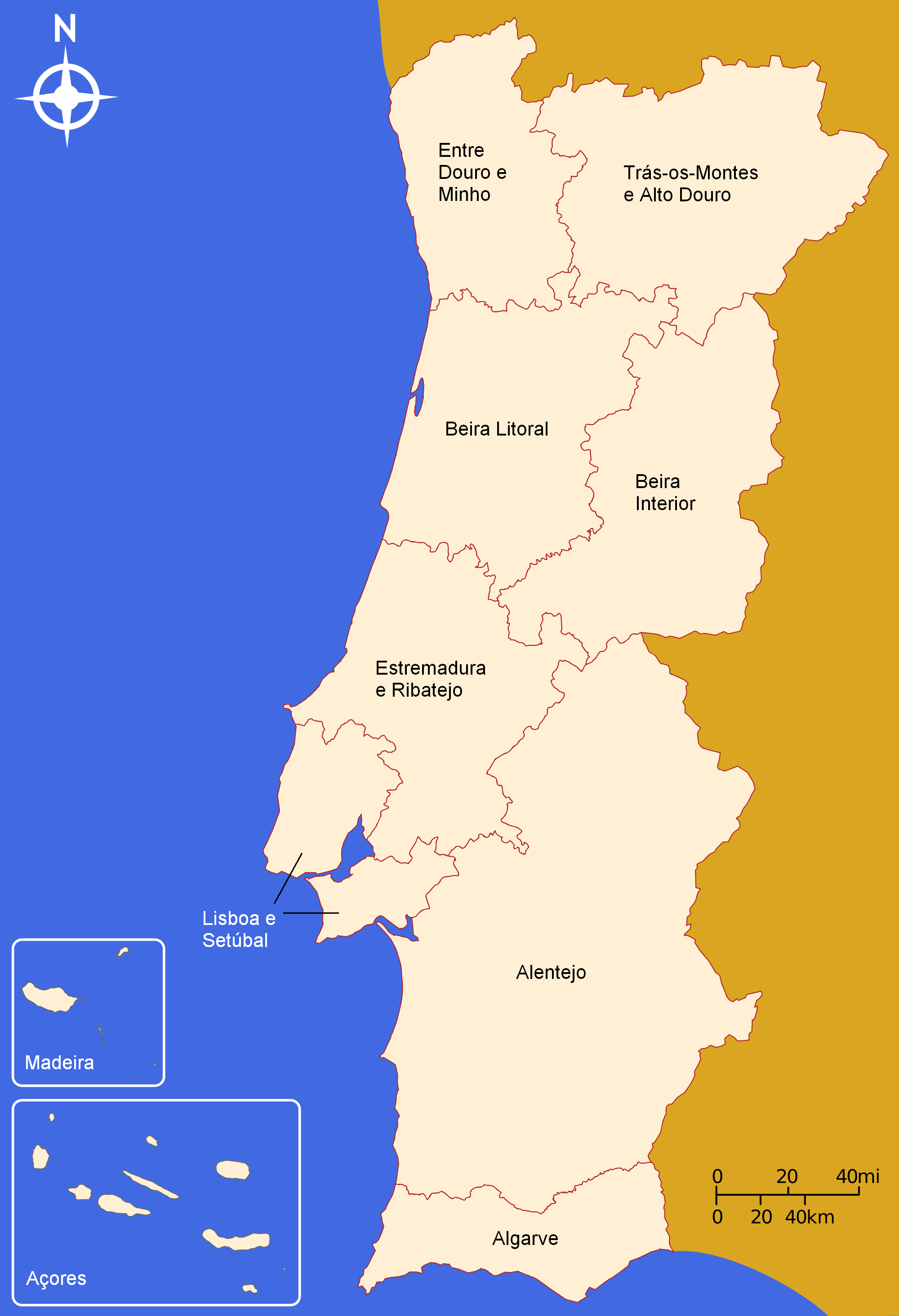 Proposal of Regionalisation of Mainland Portugal, voted in a Referendum on 8 November 1998. It consisted on the division of Mainland Portugal into 8 administrative regions, extinguishing the 18 districts established until then.